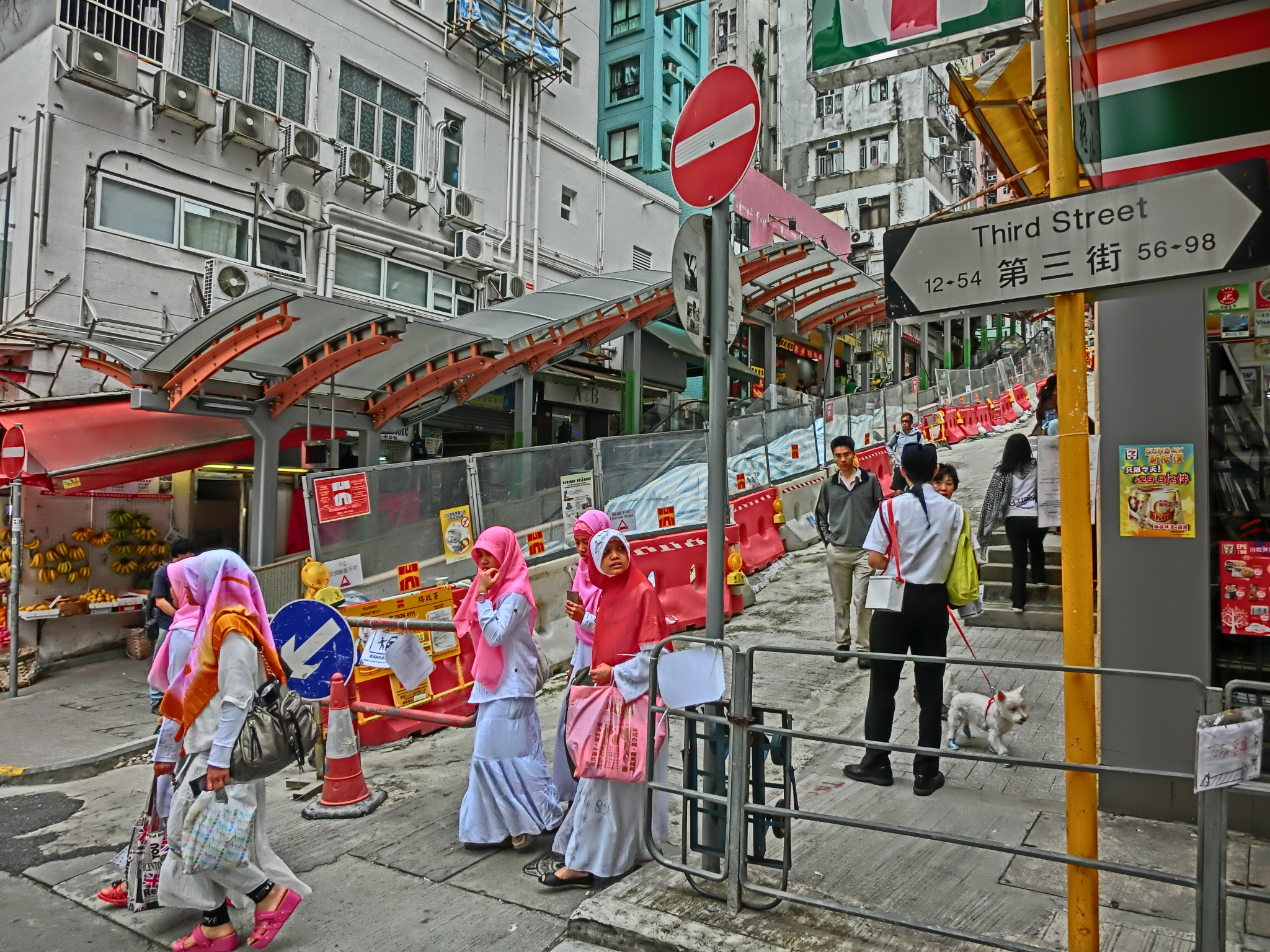 西環第三街, Third Street, Sai Ying Pun, Hong Kong